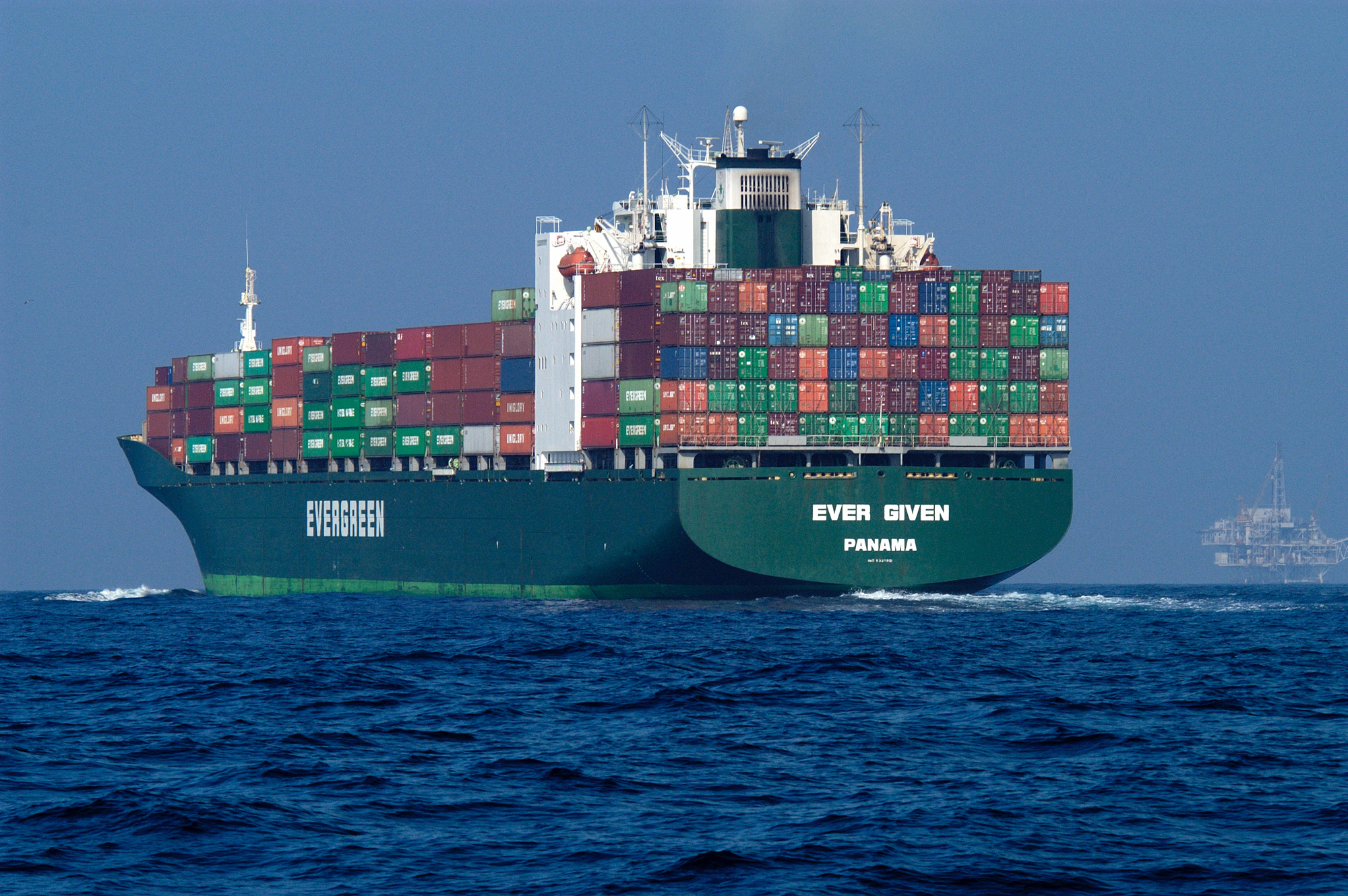 With NOAA's predicted, real-time, and forecasted currents, people can safely dock and undock ships, maneuver them in confined waterways, and safely navigate through coastal waters. This helps to avoid ship collisions or delay the arrival of goods.